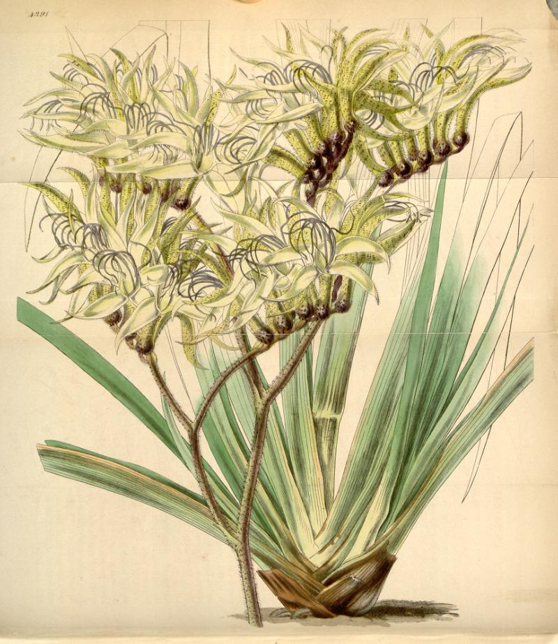 This is a plate from Curtis's Botanical Magazine, Volume 73. pl 4291. The title is ANIGOZANTHOS fuliginosa. Sooty Anigozanthos. The image contains a species currently known as Macropidia fuliginosa